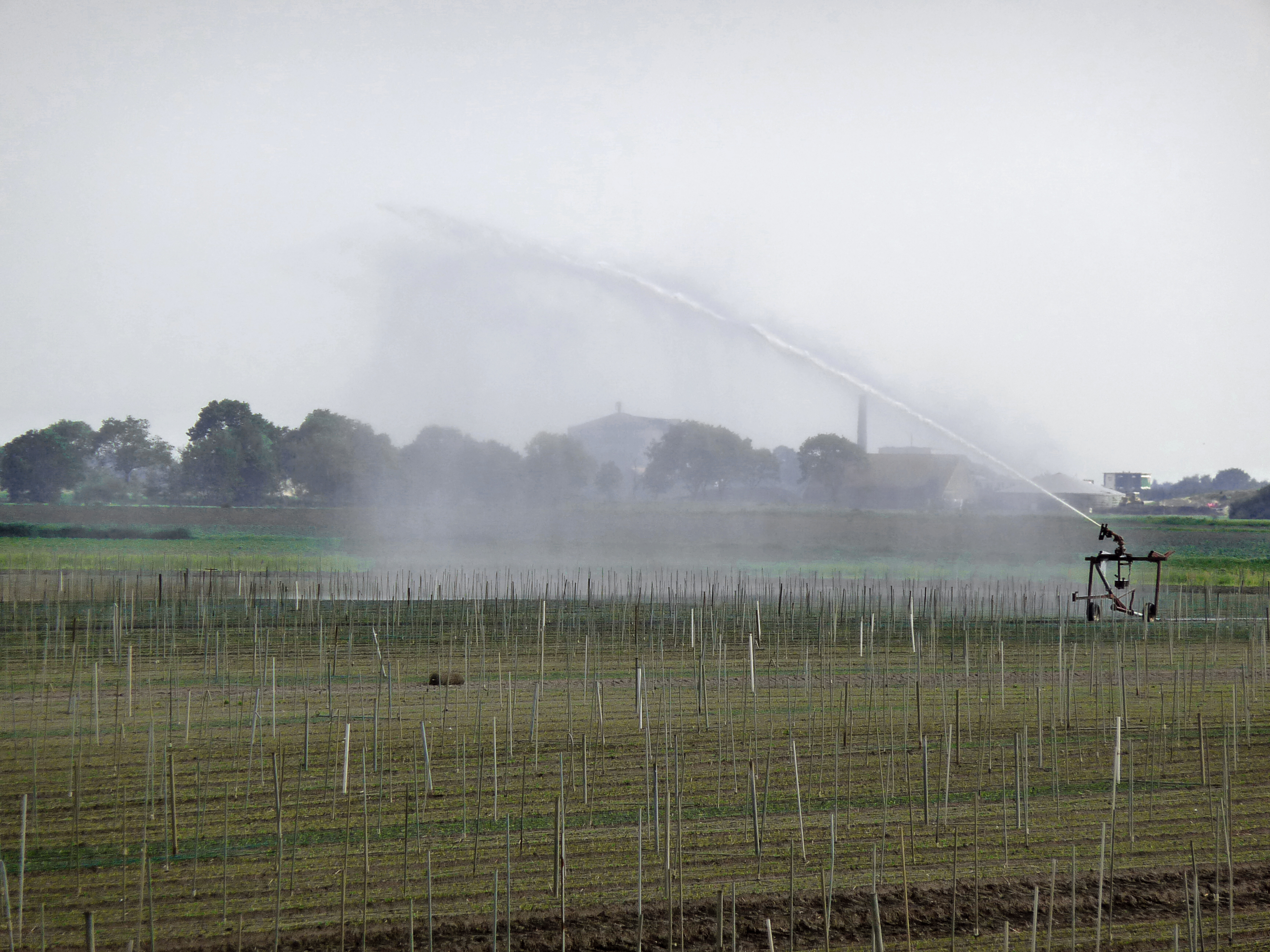 A photo of a water-sprayer with water mist, in the fields near Oranje during a dry spring in the district of Midden Drenthe, Netherlands, 2012